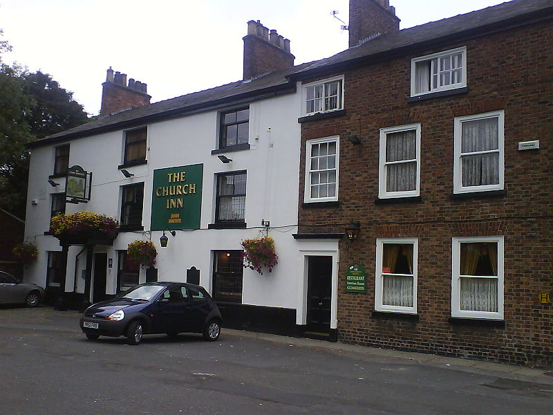 15th century coaching inn.